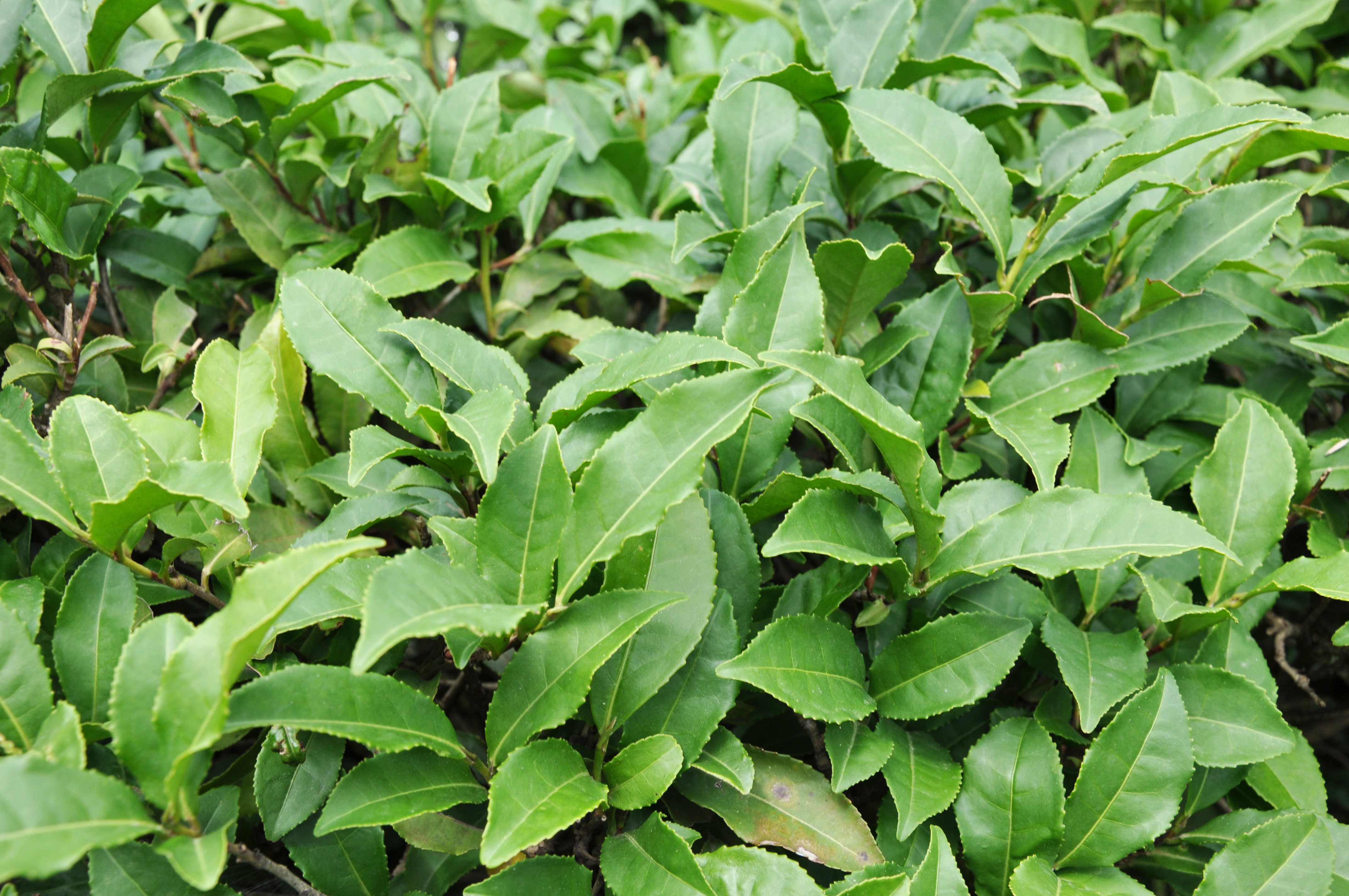 Taken in Tkibuli